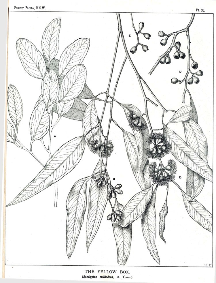 Yellow Box, Eucalyptus melliodora A. Cunn., Plate 35 from Forest Flora of New South Wales by by Joseph Henry Maiden (1859–1925)